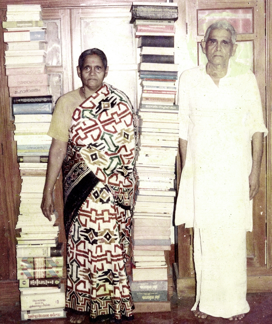 Balakrishnan and R. Leela Devi along with their books